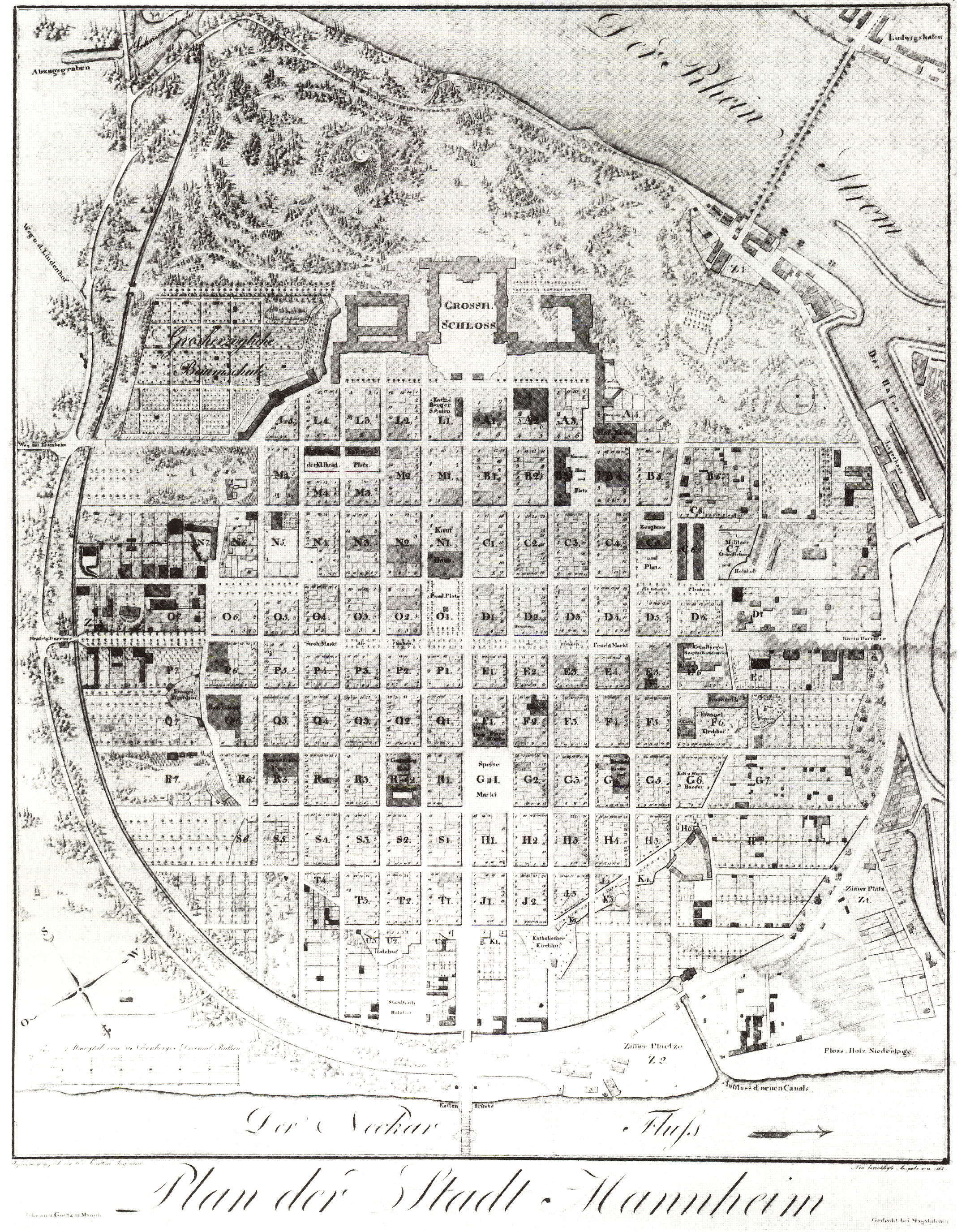 old map of Mannheim, Germany